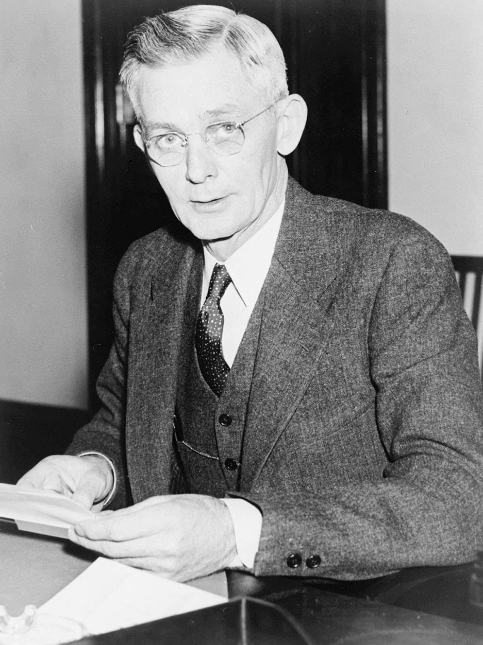 Congressional Portrait, Congressman John Elvis Miller